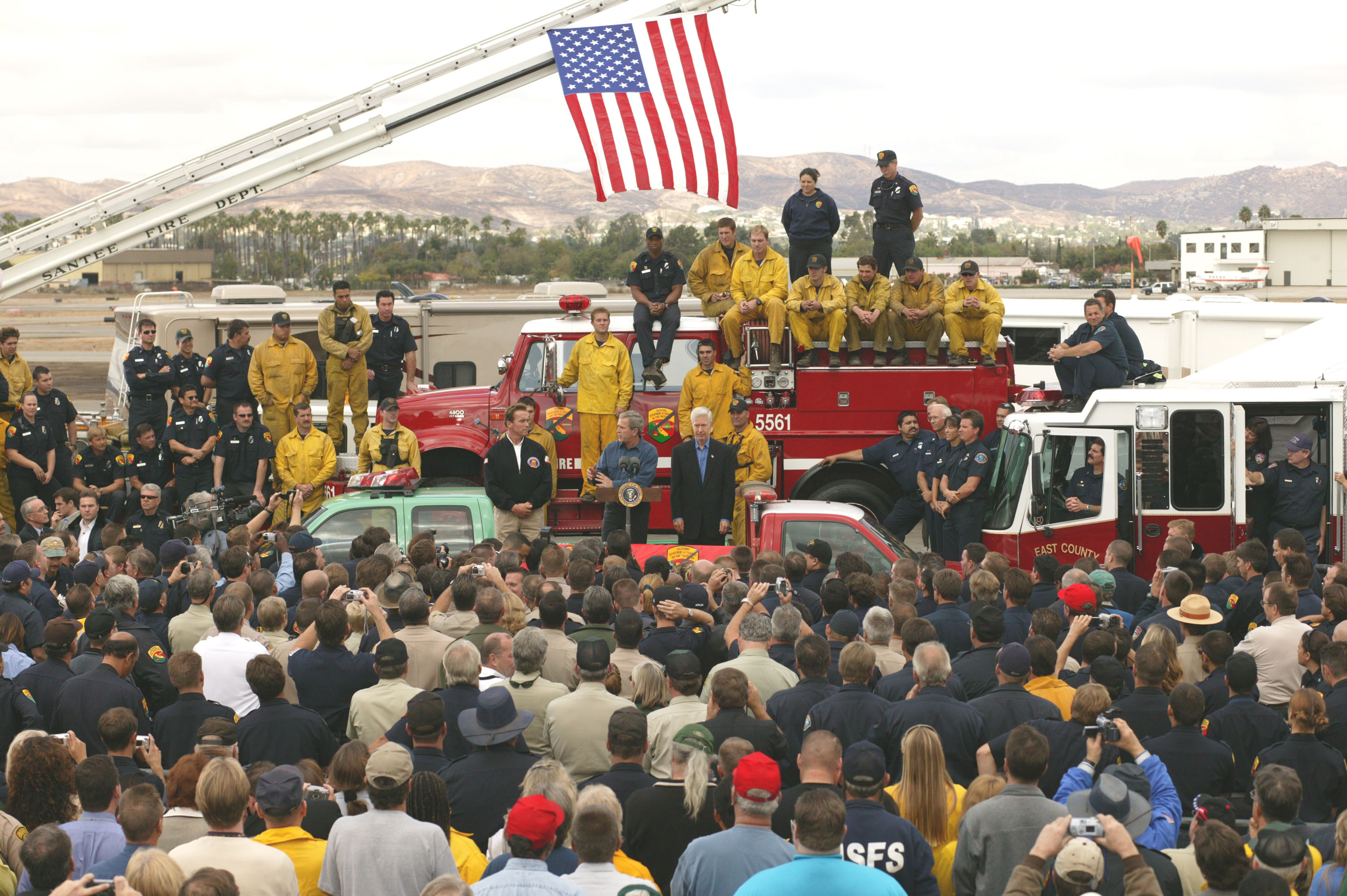 El Cajon, CA, November 4, 2003 -- President Bush, Governor Gray Davis and Governor-elect Arnold Schwarzenegger thank firefighters for their hard work during the wildfires of Southern California. Photo by Andrea Booher/FEMA